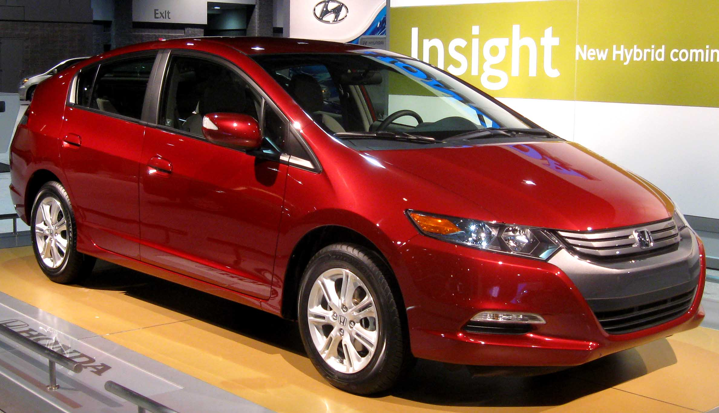 2010 Honda Insight photographed at the 2009 Washington DC Auto Show.